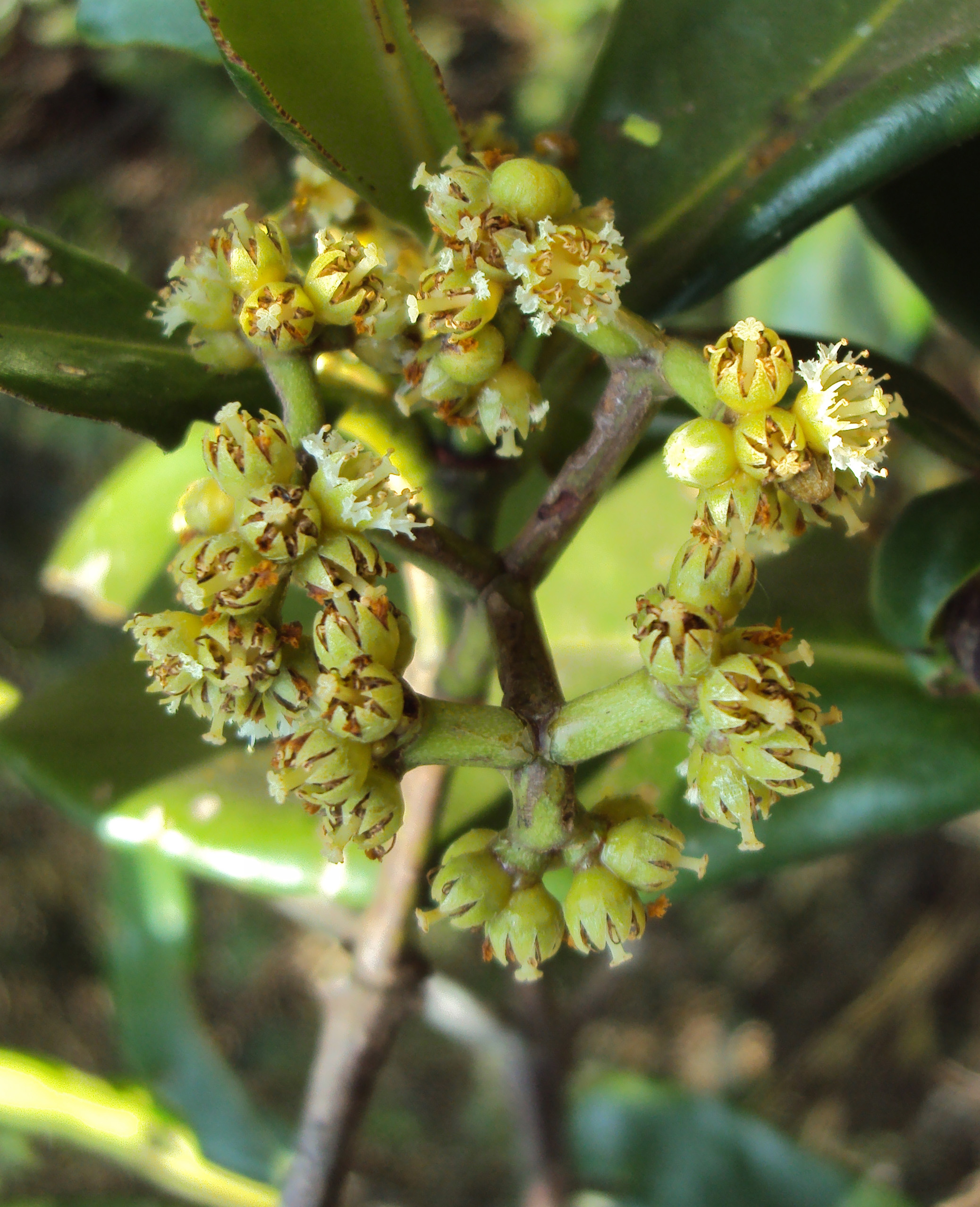 Carallia brachiata